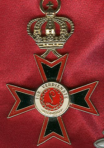 Scan of a small cross in my posession. Robert Prummel